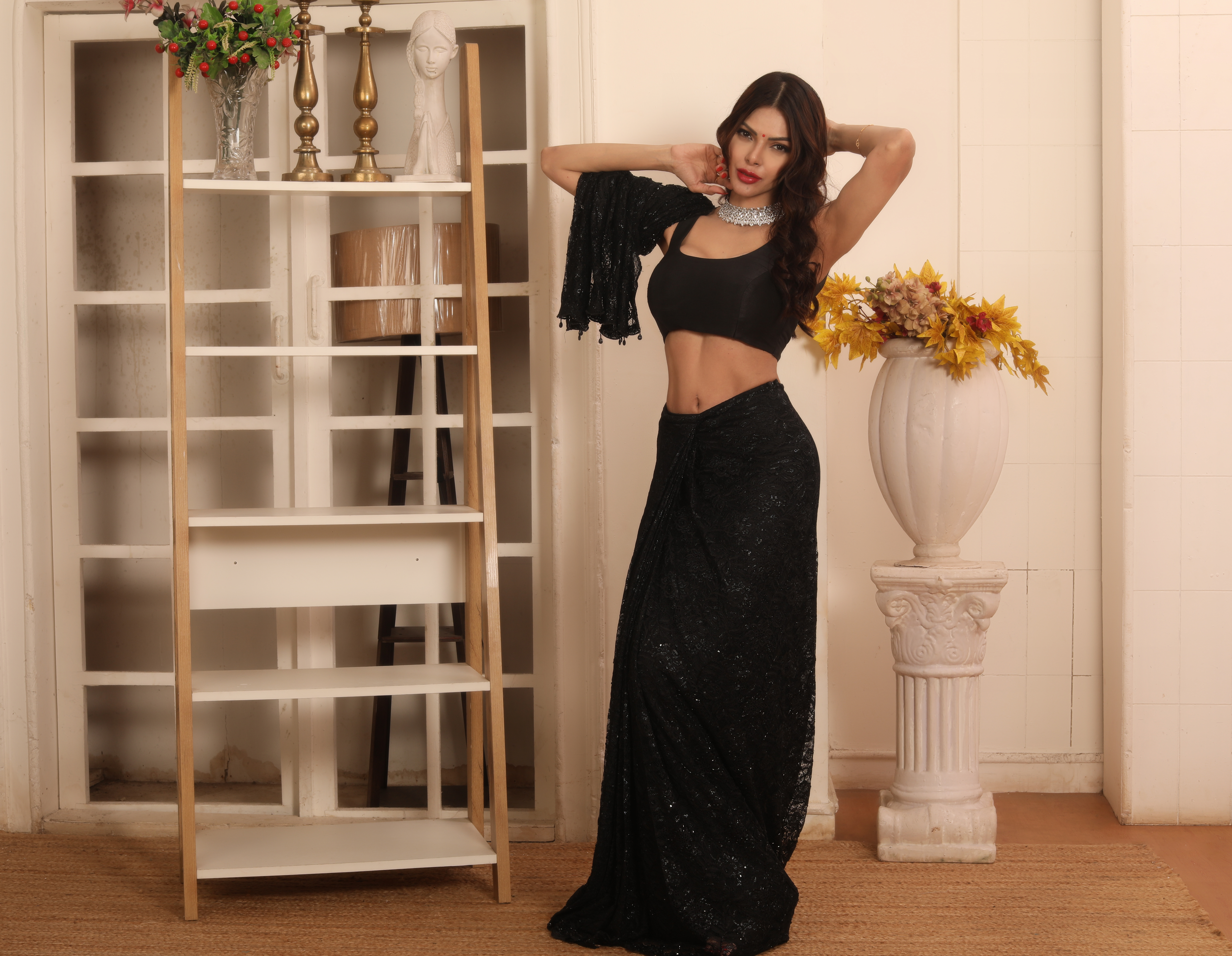 Sherlyn Chopra at Revital Launch